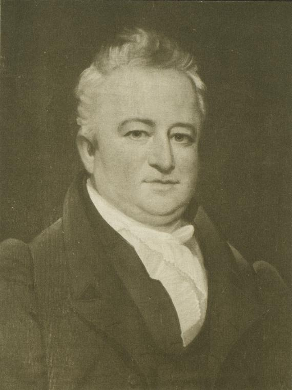 Gerrit Yates Lansing, Congressman from New York